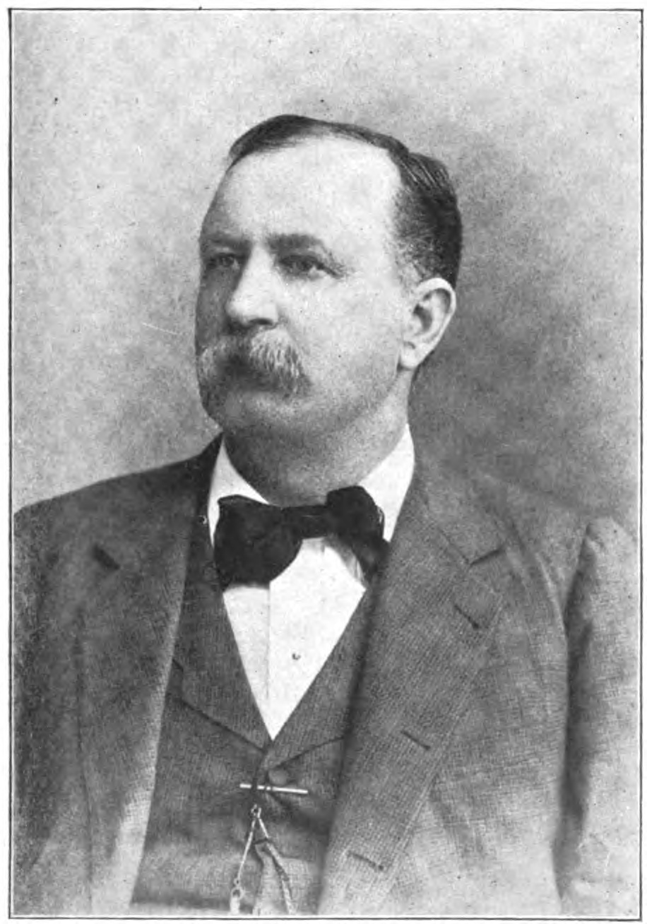 William H. Enochs was a politician and general from Ohio.